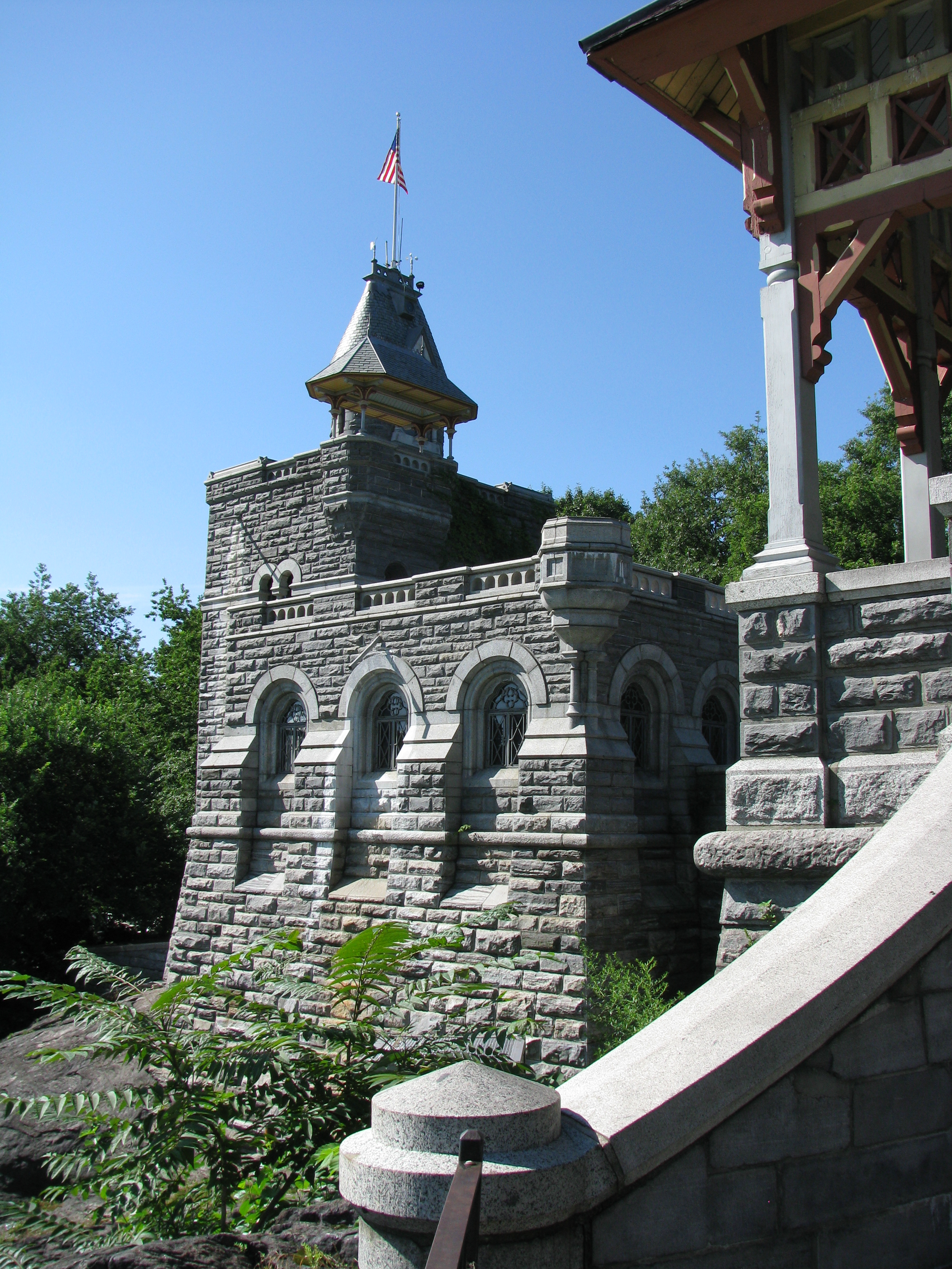 Belvedere Castle in Central Park, New York City.